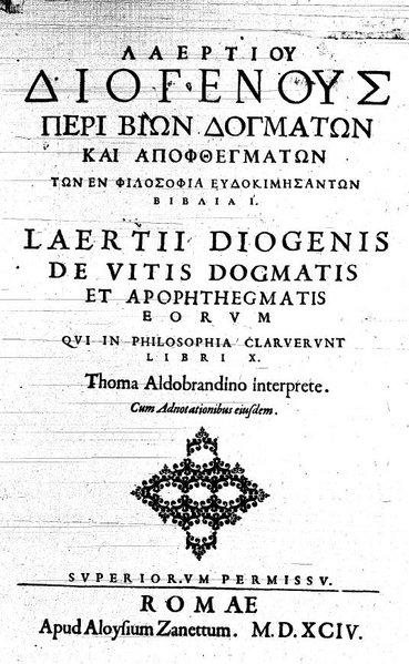 Diogenes Laërtius: Lives and Opinions of Eminent Philosophers. A biography of the Greek philosophers. Title page from year 1594.